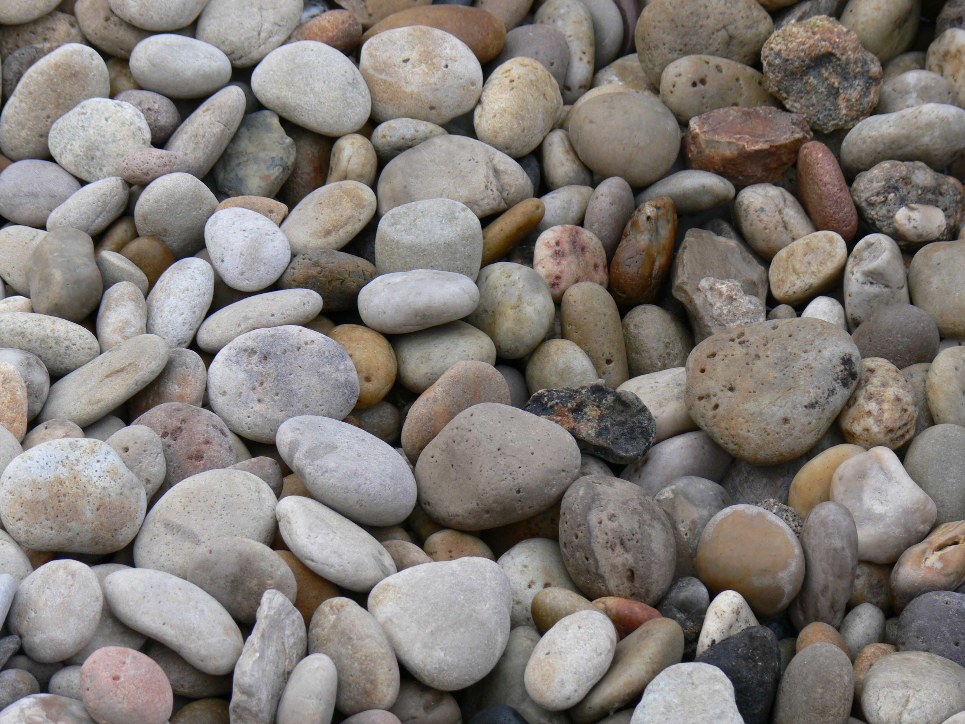 lakeshore stones